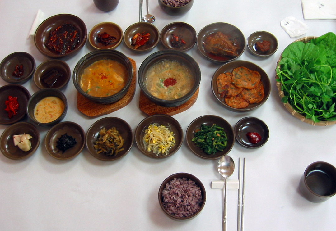 Hanjeongsik, a full array of Korean meal